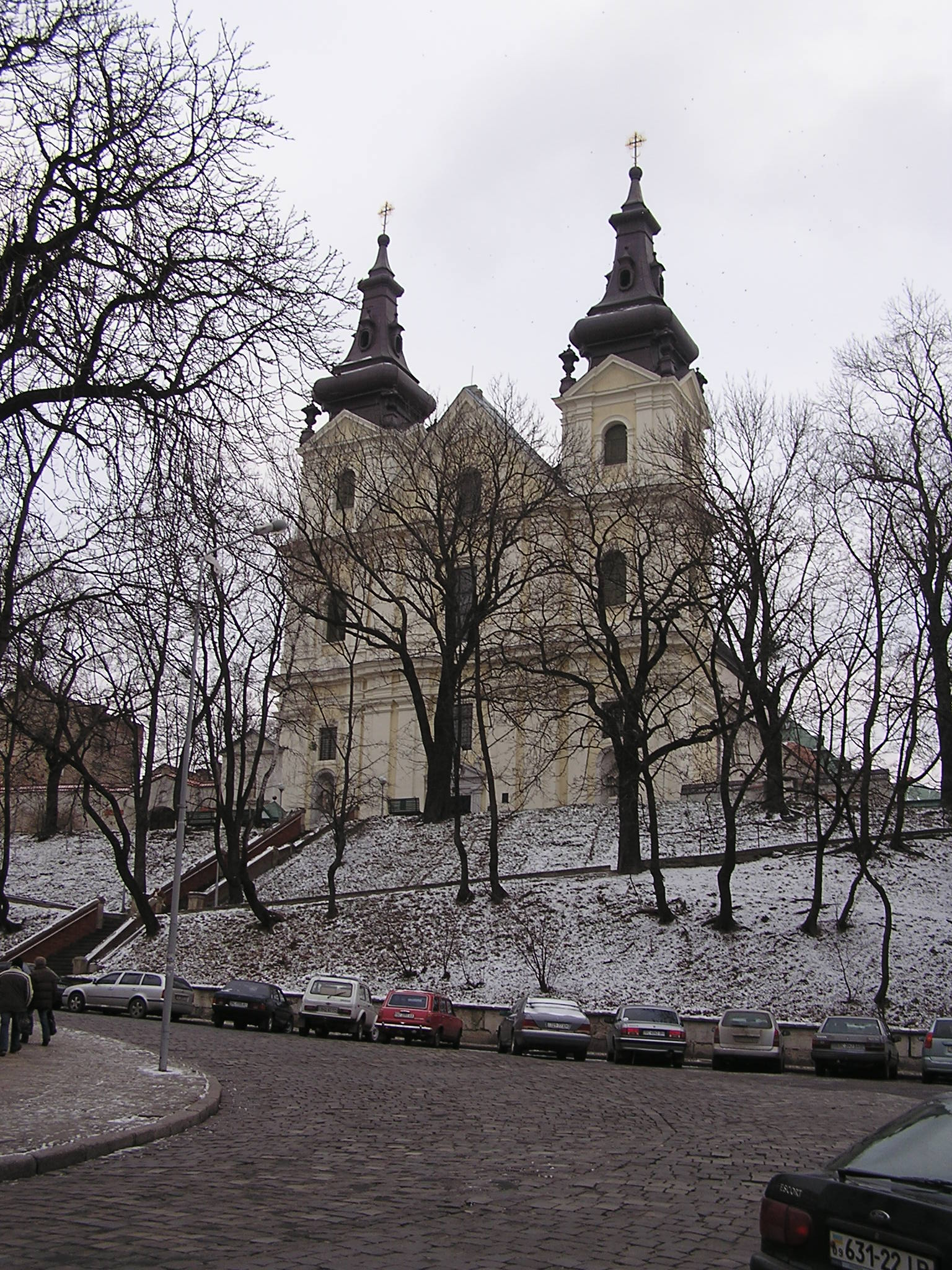 Lviv